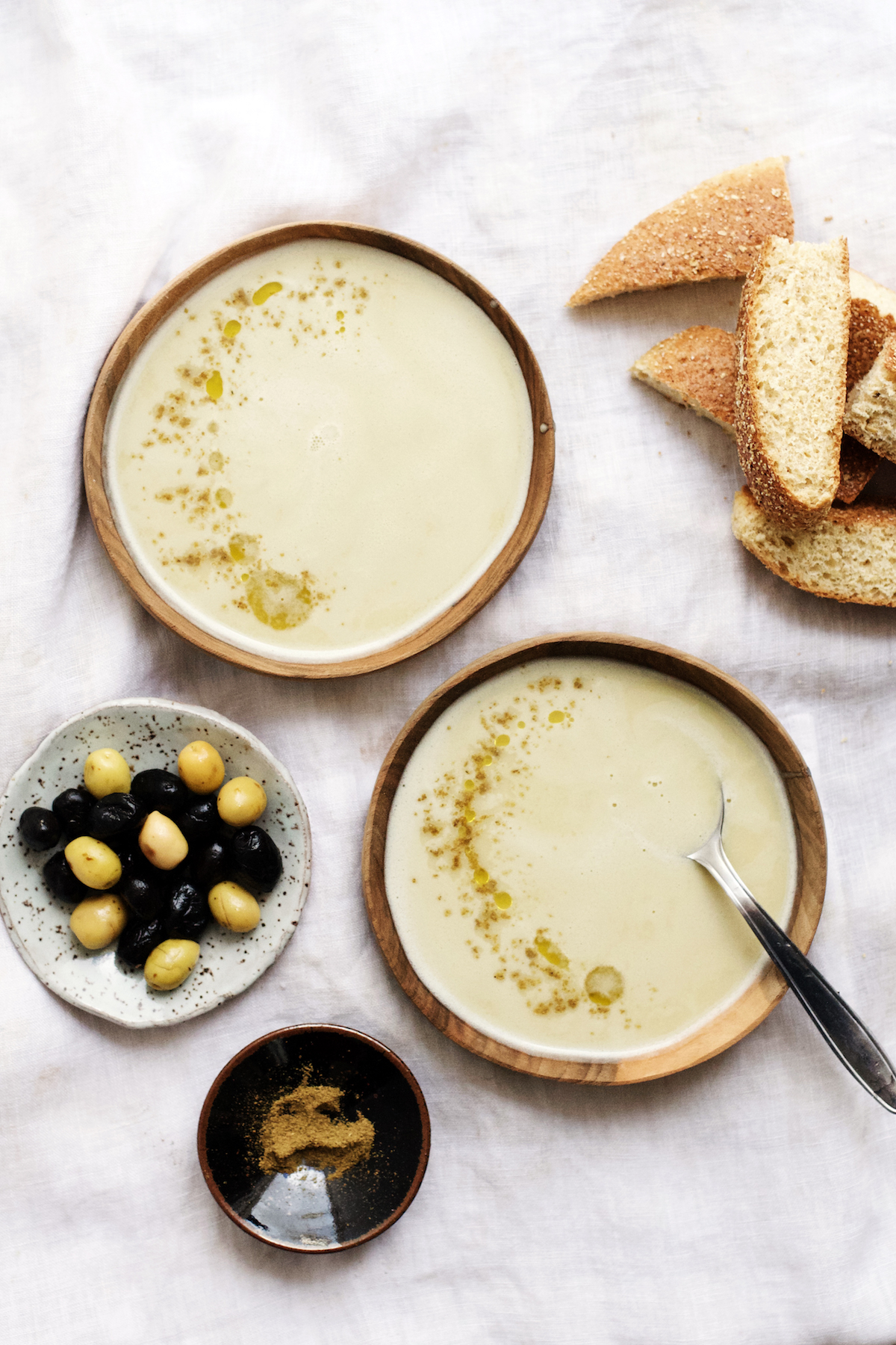 Bissara served with olives, spices and bread